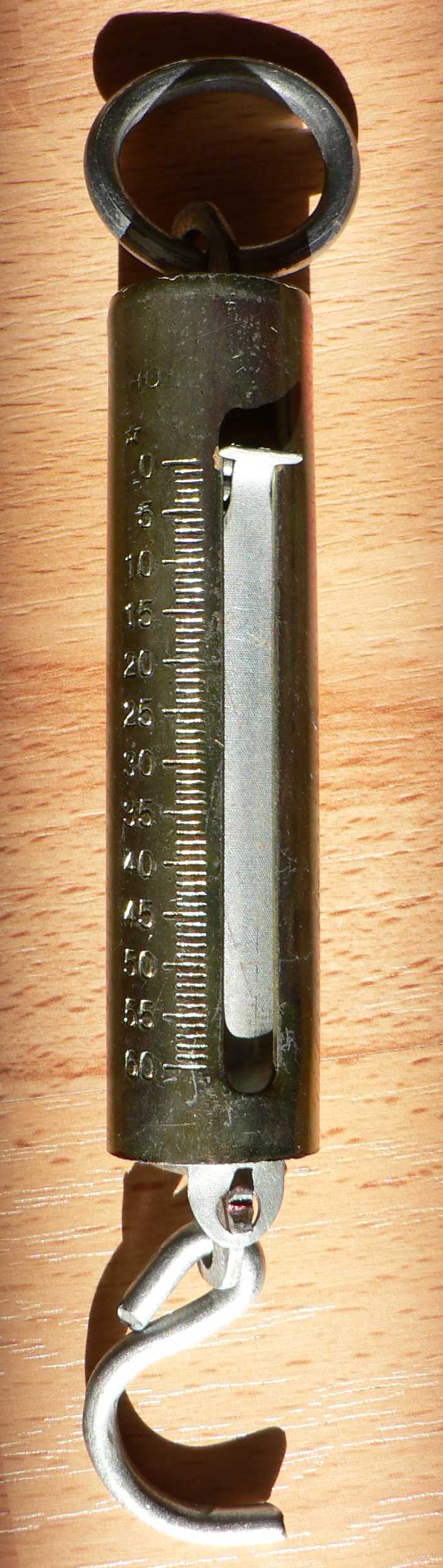 measuring spring (Hooke's law)